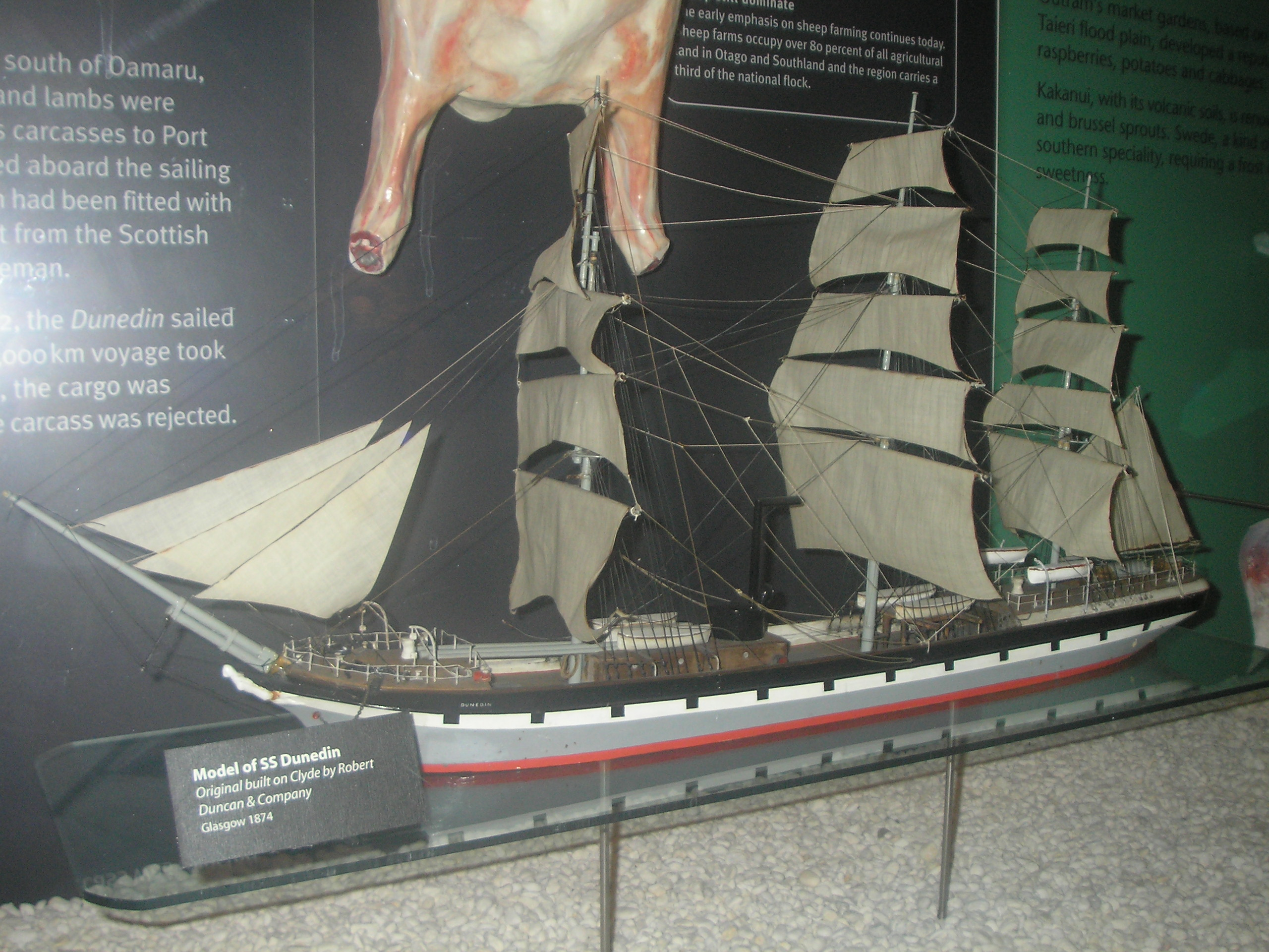 Dunedin, the first comercially sucessful refrigerated ship, which transported lamb from New Zealand to Britain. She was built in 1874, transferred to Shaw Savill and Albion Line in 1882 and disappeared at sea in 1890. Model photographed at the Otago Museum, Dunedin.